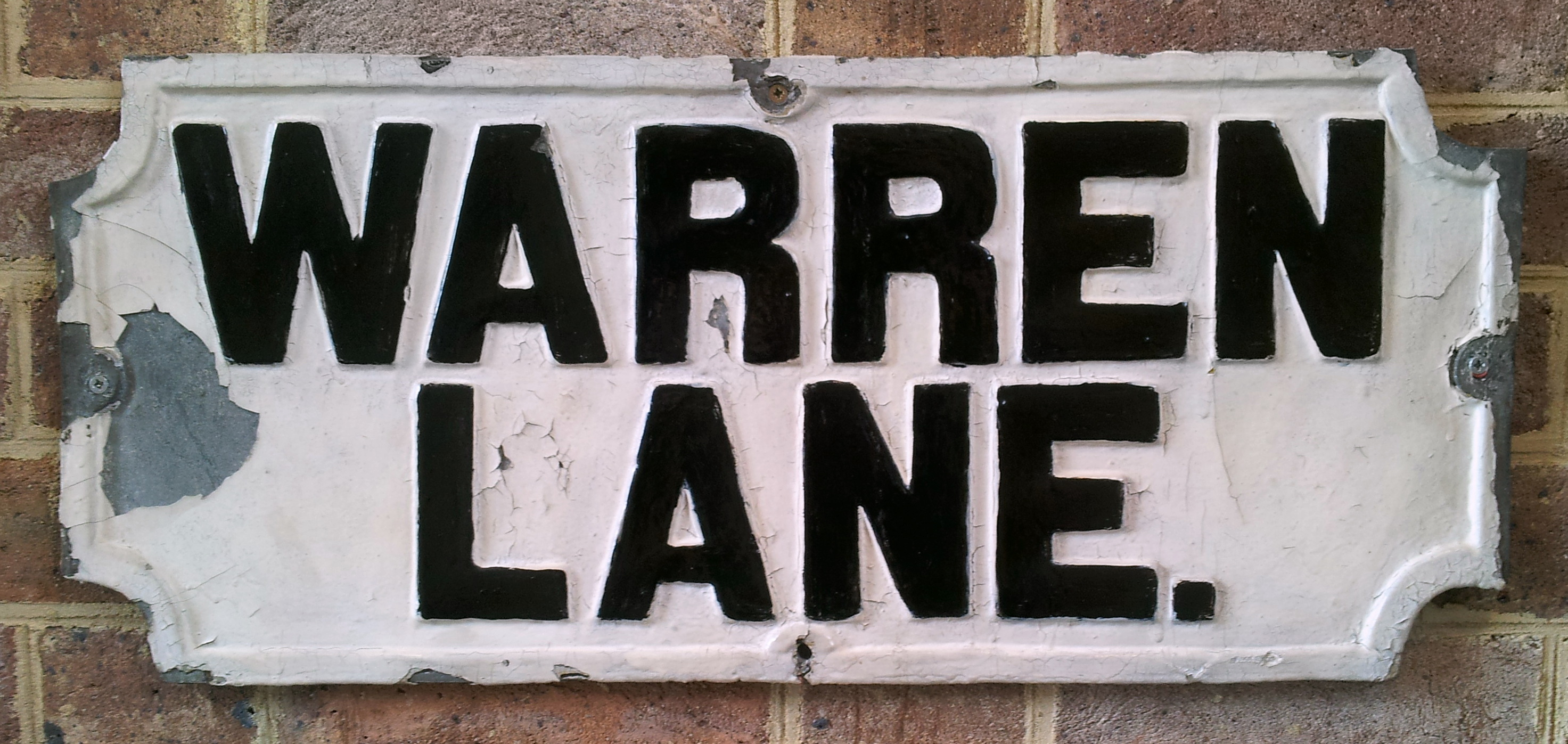 Street sign Warren Lane, part of the permanent exhibition in Greenwich Heritage Centre in Woolwich, southeast London, UK. Warren Lane was where "The Warren" started in the 17th century, later the Royal Arsenal.